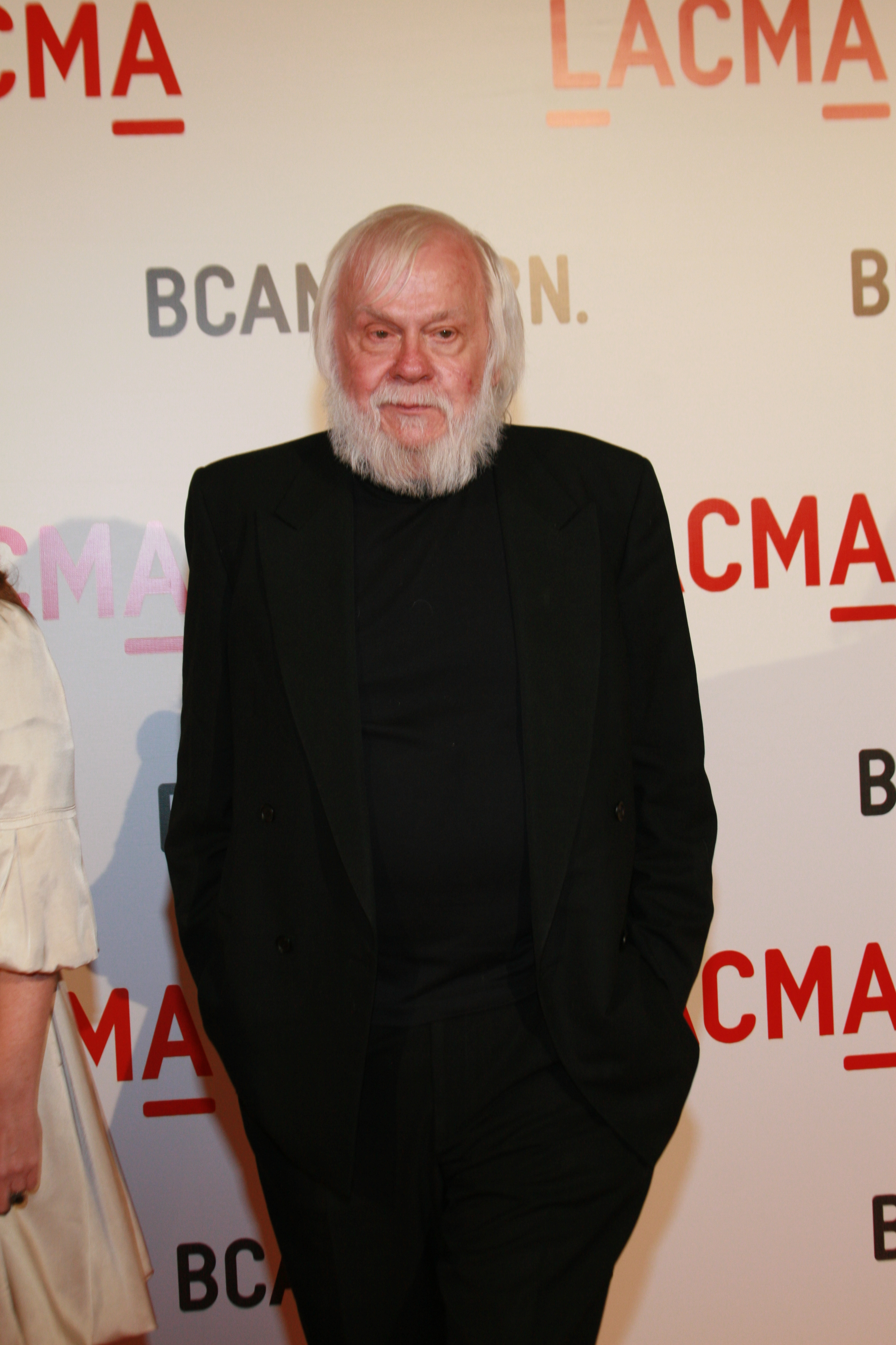 John Baldessari arrives at LACMA’s Gala Opening of the Broad Contemporary Art Museum on February 9, 2008 in Los Angeles, CA.